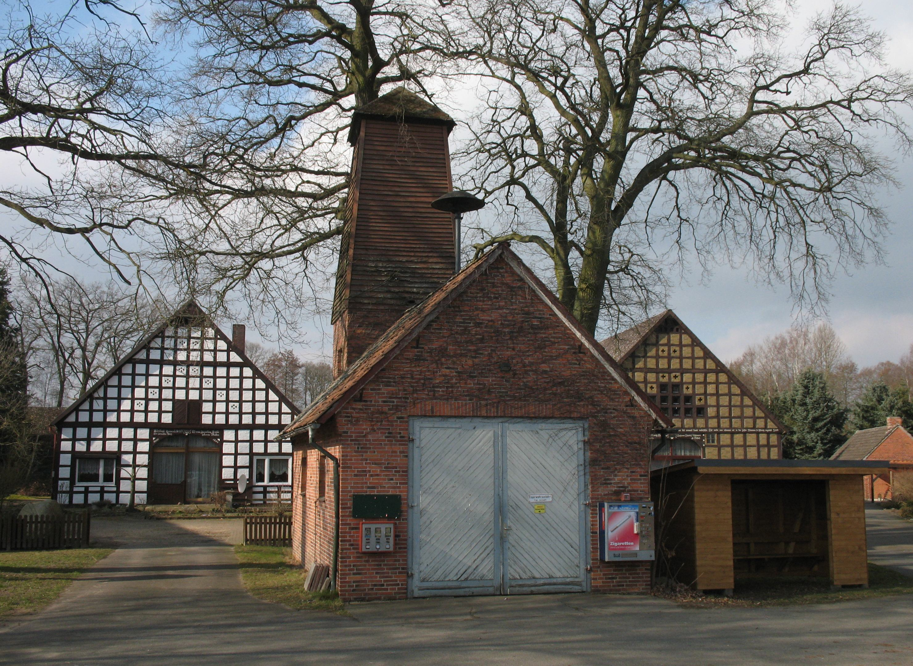 Fire station in Jameln-Breselenz in Lower Saxony, Germany